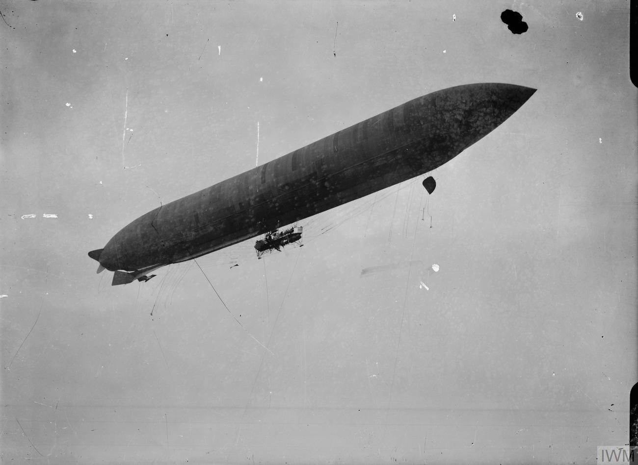 Aviation in Britain Before the First World War The Lebaudy airship in flight.